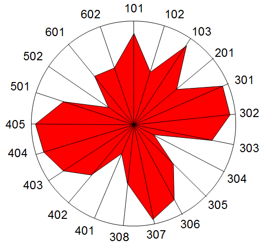 Sample result from MARION method.